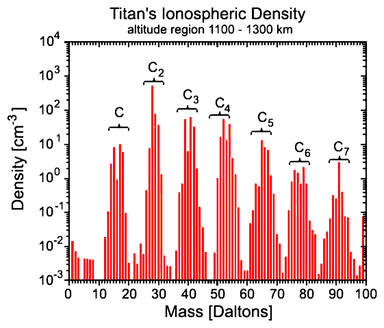 This figure shows a mass spectrum of Titan's ionosphere near 1200 kilometers (750 miles) above its surface. The mass range covered goes from hydrogen at 1 dalton to 99 daltons per elementary charge. This mass range includes compounds with 1, 2, 3, 4, 5, 6, and 7 carbons as the base structure (as indicated in the figure label). The identified compounds include multiple carbon molecules and carbon-nitrogen-bearing species as well.